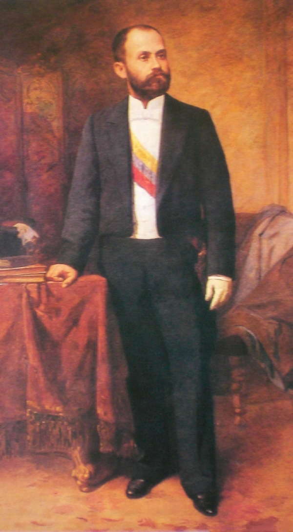 Portrait painting of Venezuelan President Cipriano Castro.